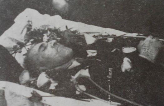 Garegin Nzhdeh funeral in Vladimir in 1956.